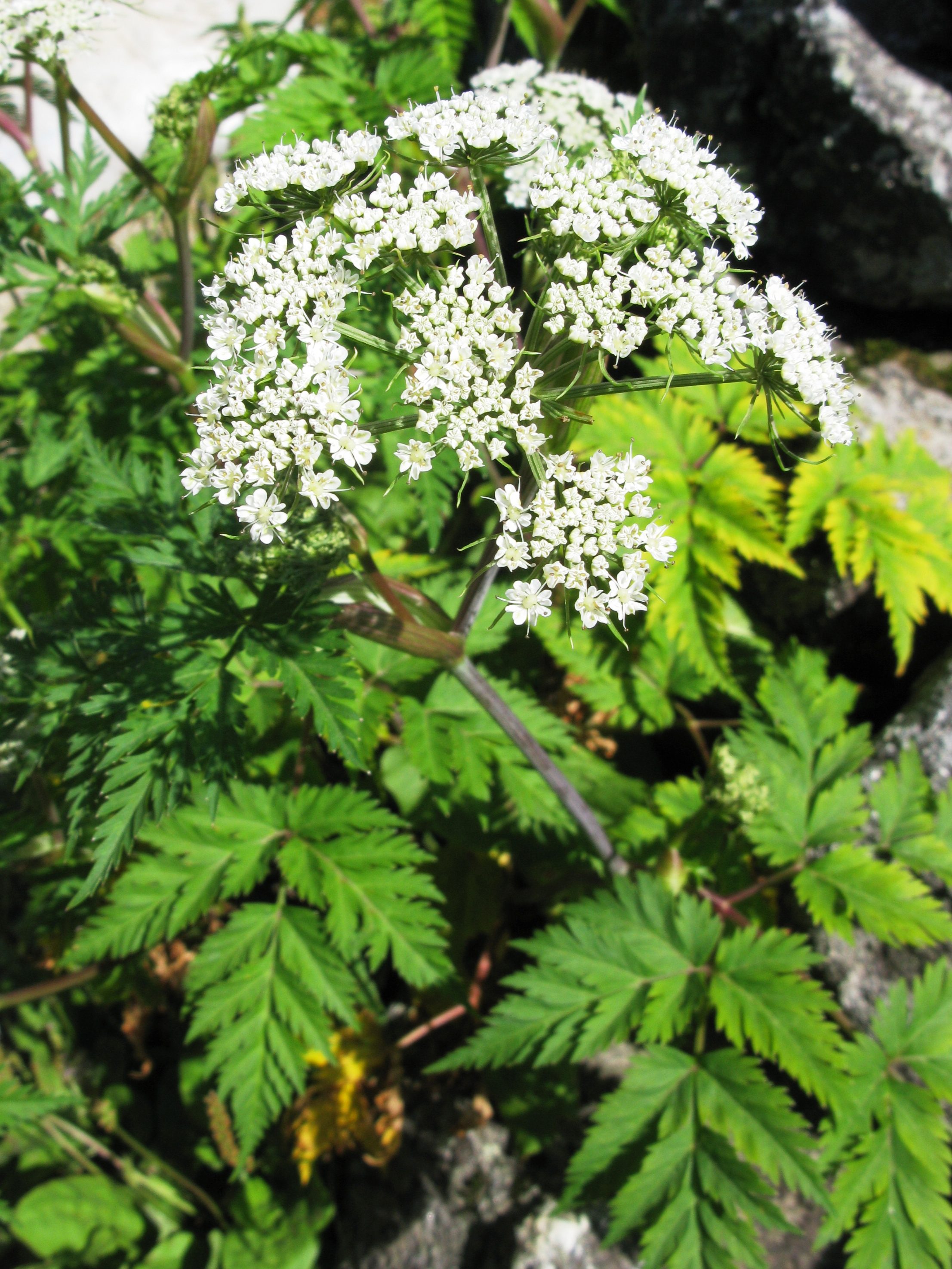 Conioselinum filicinum, Mt. Iide, Fukushima pref., Japan